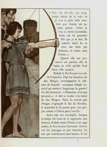 L'archer (The Archer), by Robert Engels, page 3.